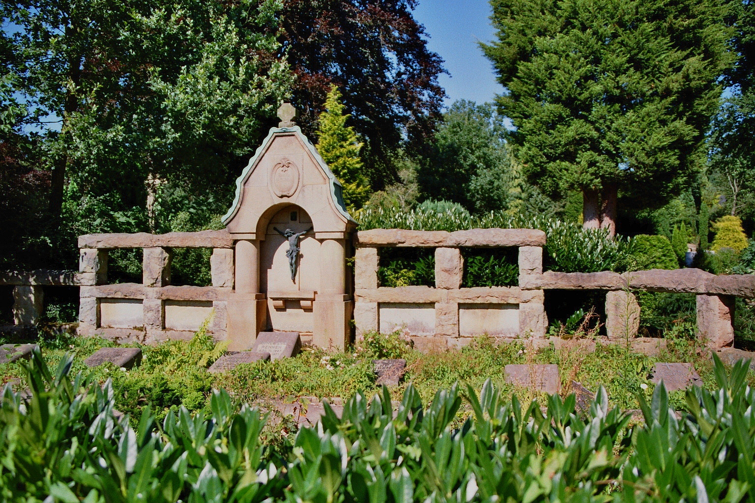 Family grave Többen-Rennen in the Central Cemetery (Zentralfriedhof) in Ibbenbüren, Kreis Steinfurt, North Rhine-Westphalia, Germany. It is a listed cultural heritage monument.